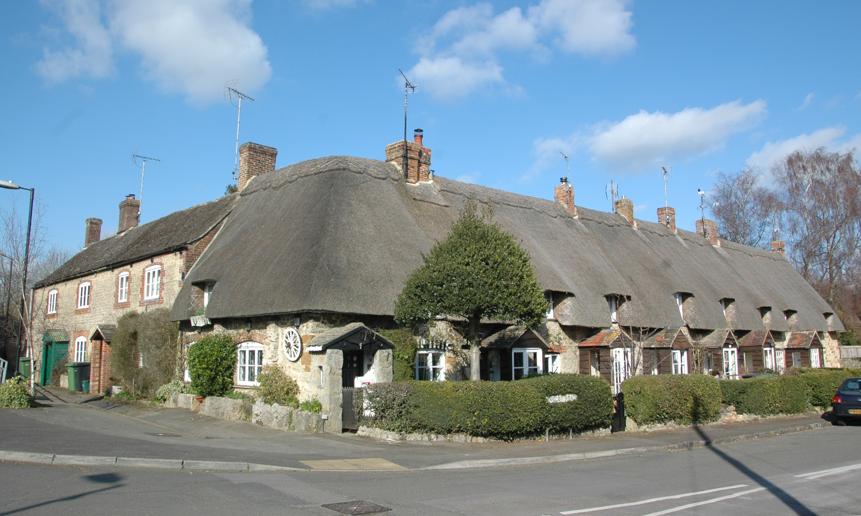 1-13 Longcot Road, Shrivenham, Oxfordshire (formerly Berkshire)